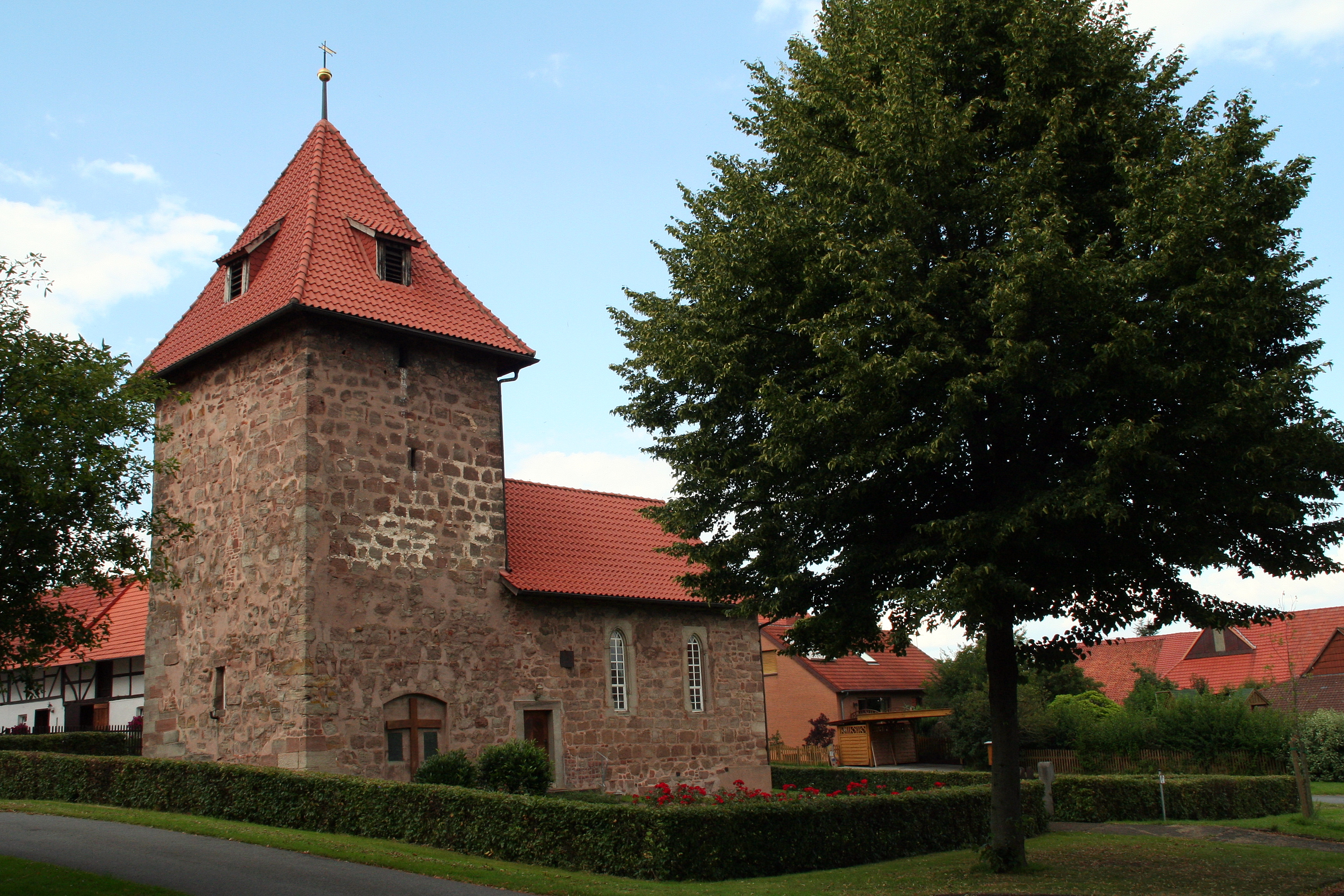 Falkenhagen near Göttingen